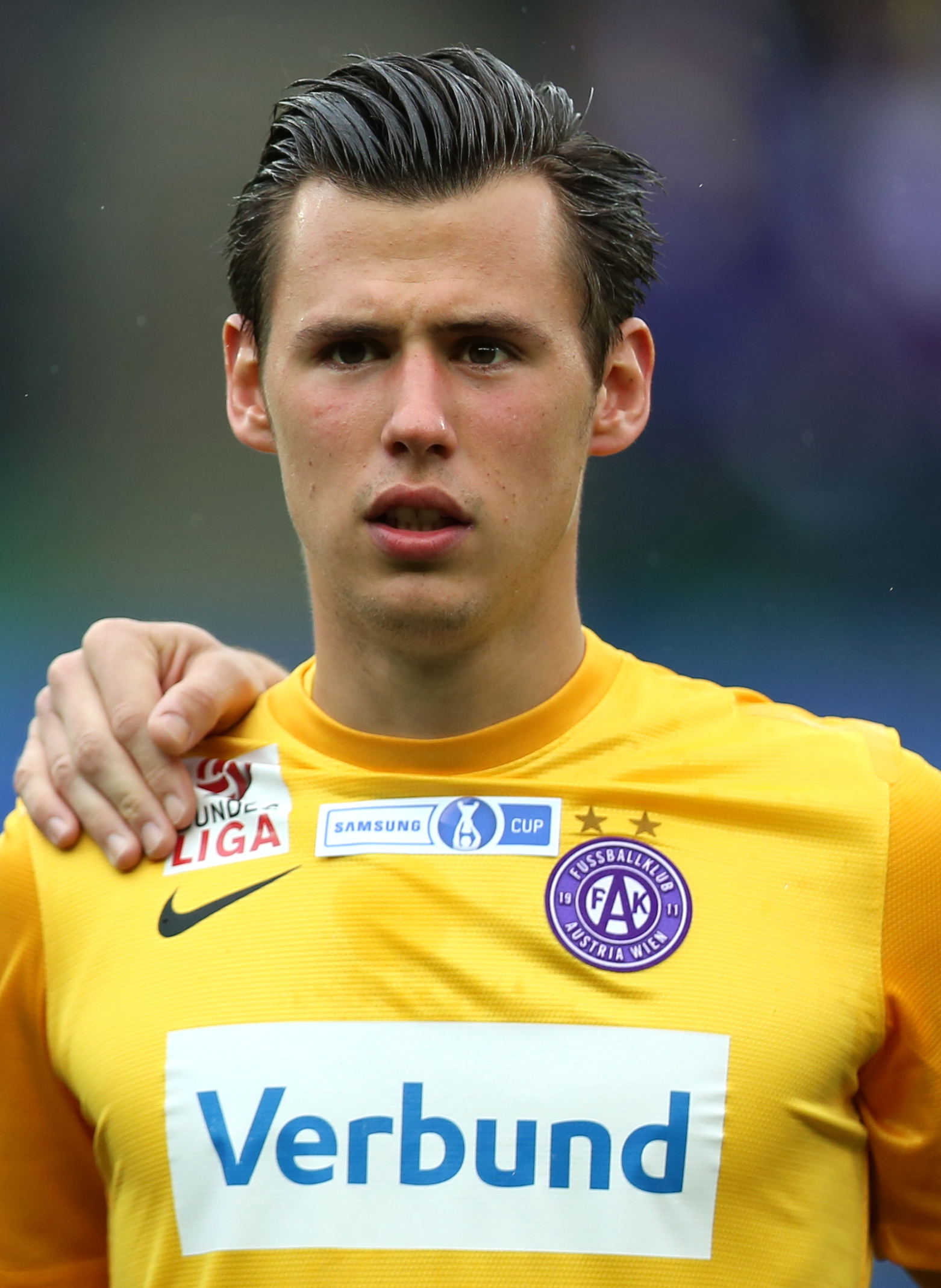 ÖFB-Cupfinale am 30. Mai 2013 im Ernst-Happel-Stadion (FC Pasching gegen FK Austria Wien 1:0). Im Bild der Torwart Heinz Lindner (FK Austria Wien). The making of this work was supported by Wikimedia Austria. For other files made with the support of Wikimedia Austria, please see the category Supported by Wikimedia Österreich.